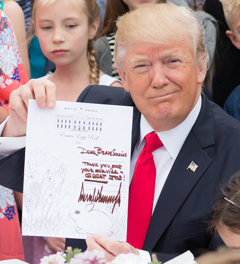 President Donald Trump holds up a signed letter he wrote to a member of the U.S. military on Monday, April 17, 2017, during the 139th Easter Egg Roll at the White House, in Washington, D.C. This was the first Easter Egg Roll of the Trump Administration. (Official White House Photo by Shealah Craighead)